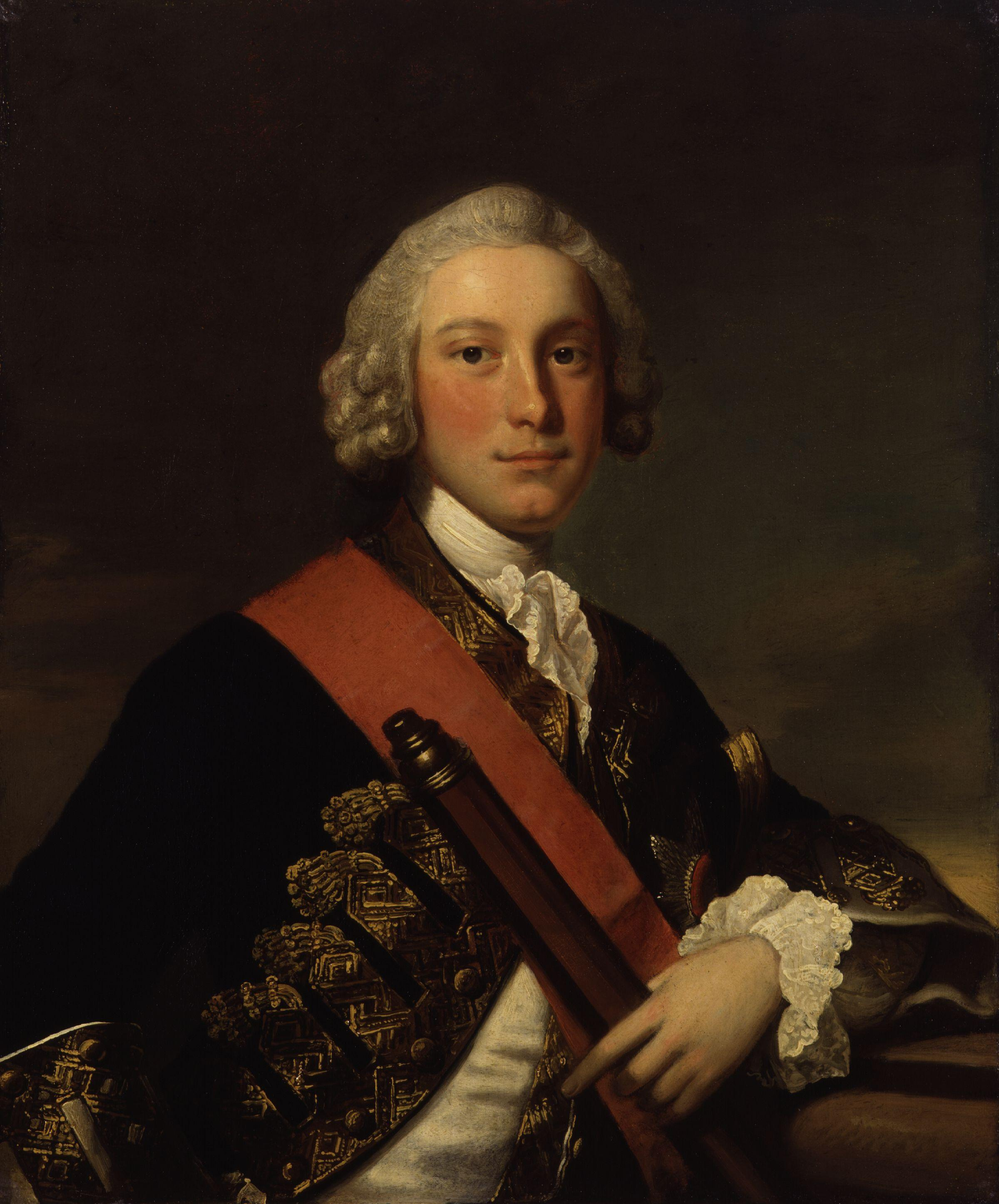 Sir George Pocock, by Thomas Hudson (died 1779). All images in this batch have been confirmed as author died before 1939 according to the official death date listed by the NPG.